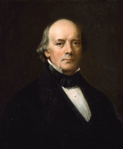 Self Portrait. about 1843. By Chester Harding, American, 1792–1866. 76.2 x 63.18 cm (30 x 24 7/8 in.). Oil on canvas. Classification: Paintings Museum of Fine Arts, Boston.